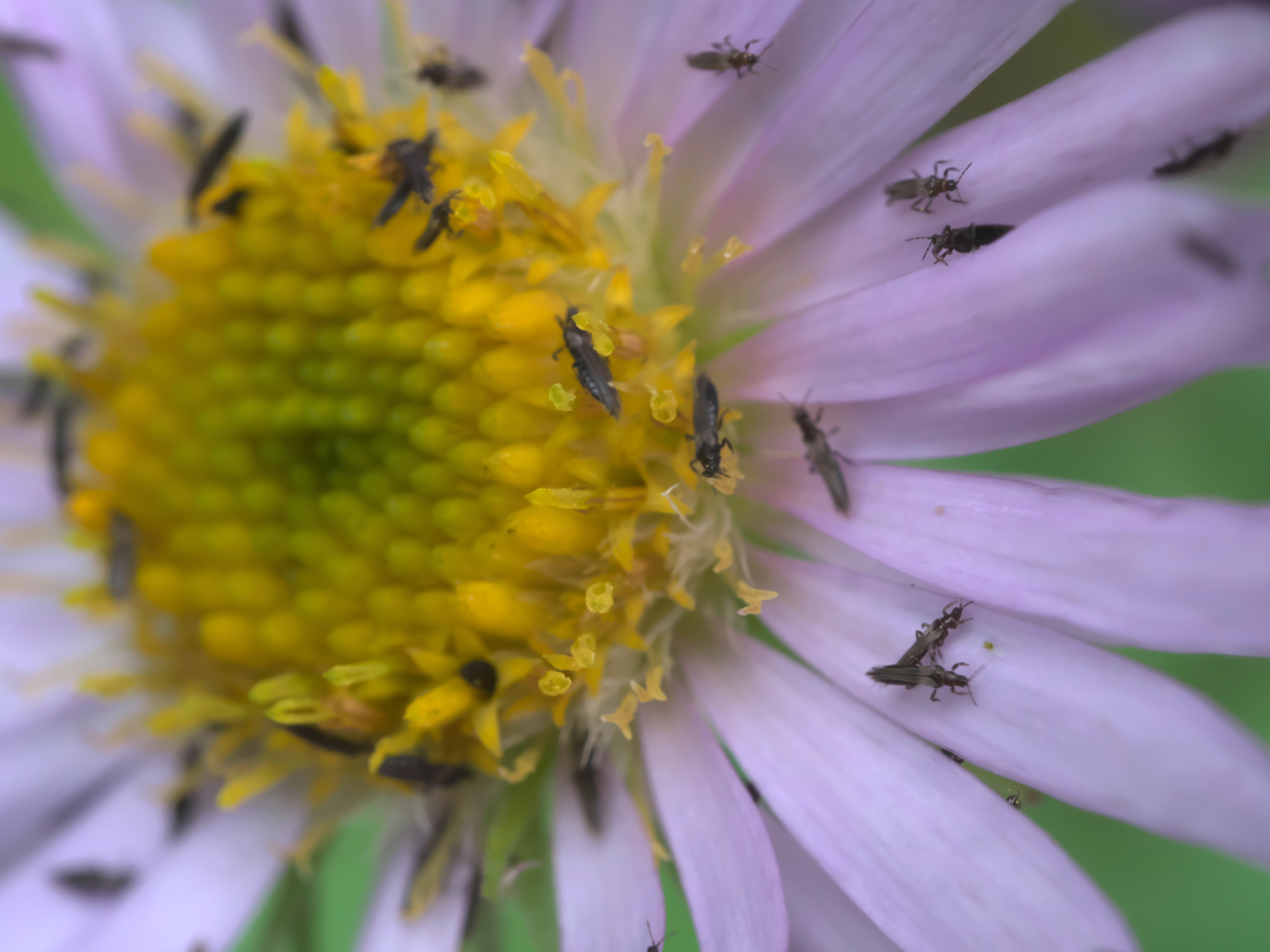 Thysanoptera, thrips